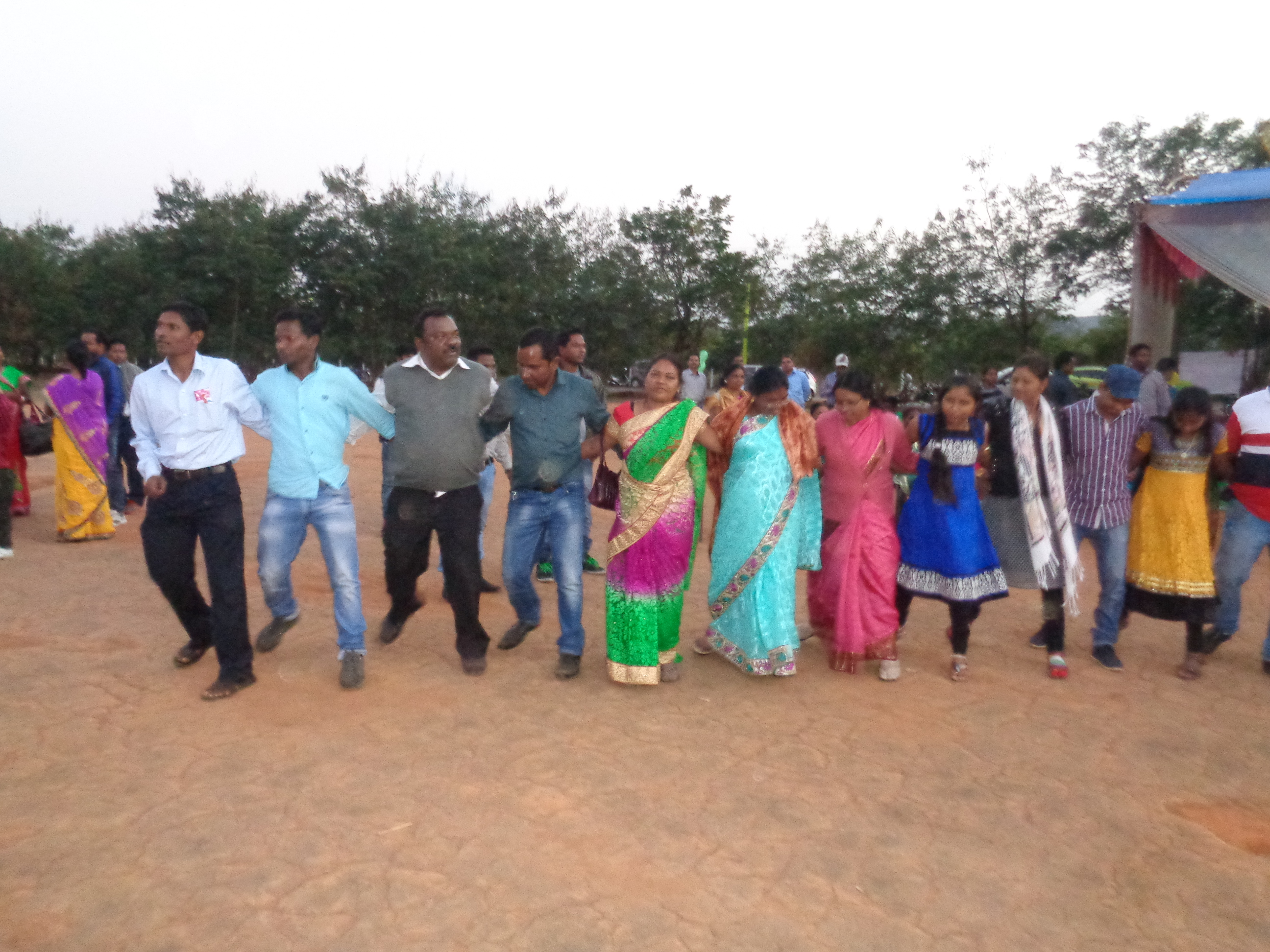 Ho tribes dancing during a function.